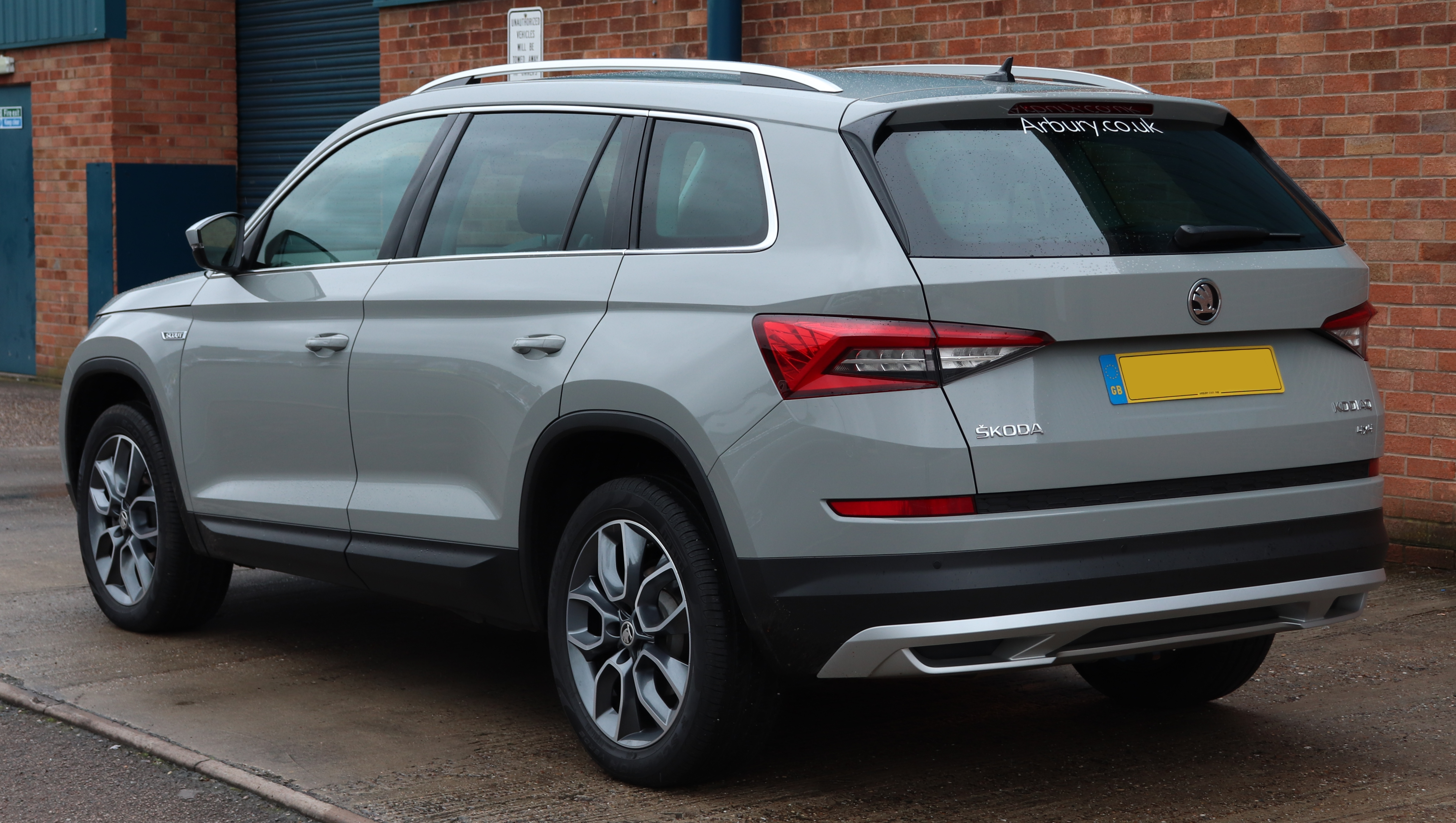 2018 Skoda Kodiaq Scout TDi SCR 4X4 2.0 Rear Taken in Sydnam, Leamington Spa